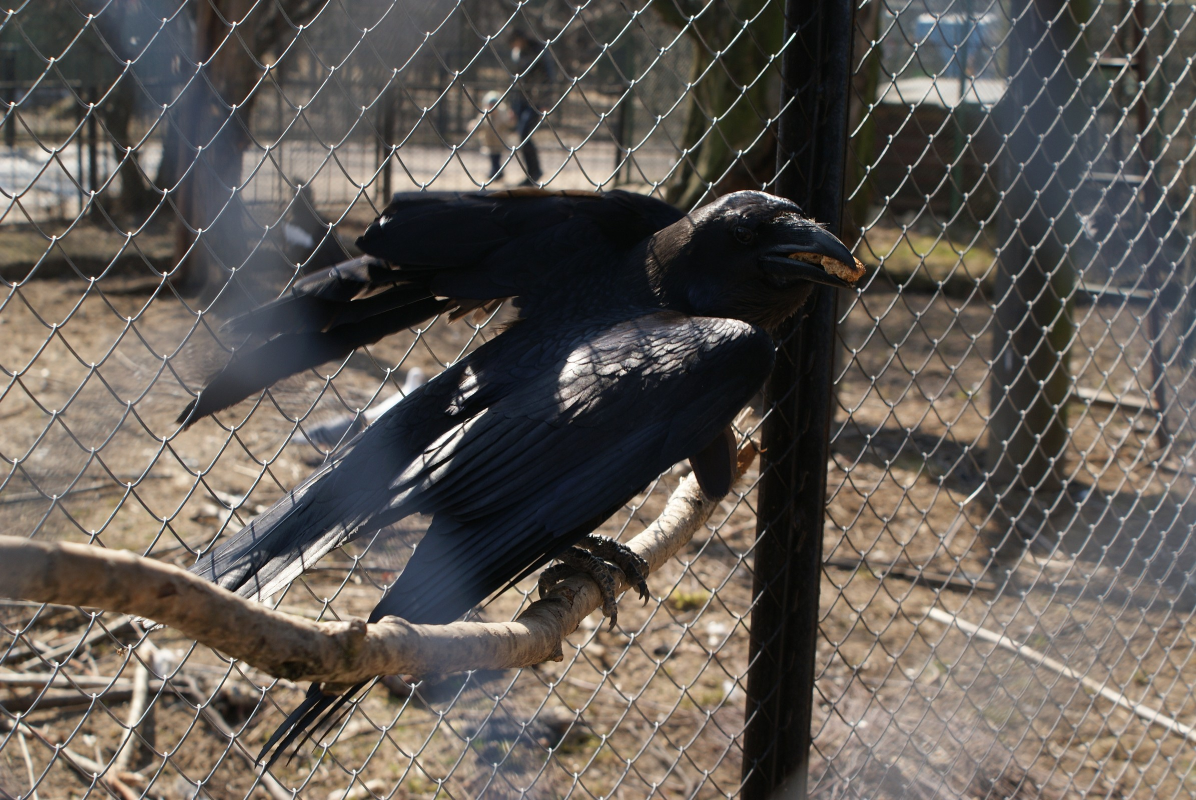 Corvus corax in Minsk Zoo